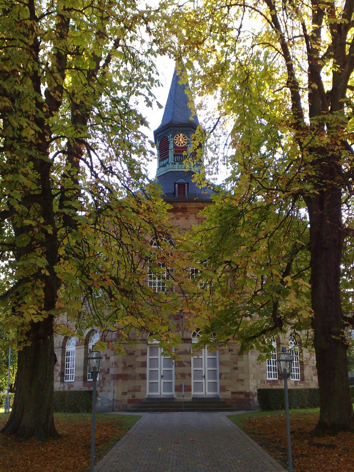 The Protestant Church (Evangelische Kirche), Bischmisheim, built in 1824 by Karl Friedrich Schinkel, radiating symmetrical eight-sidedness ever since. More information and comments at Phone Cam 365: 2009-10-25.